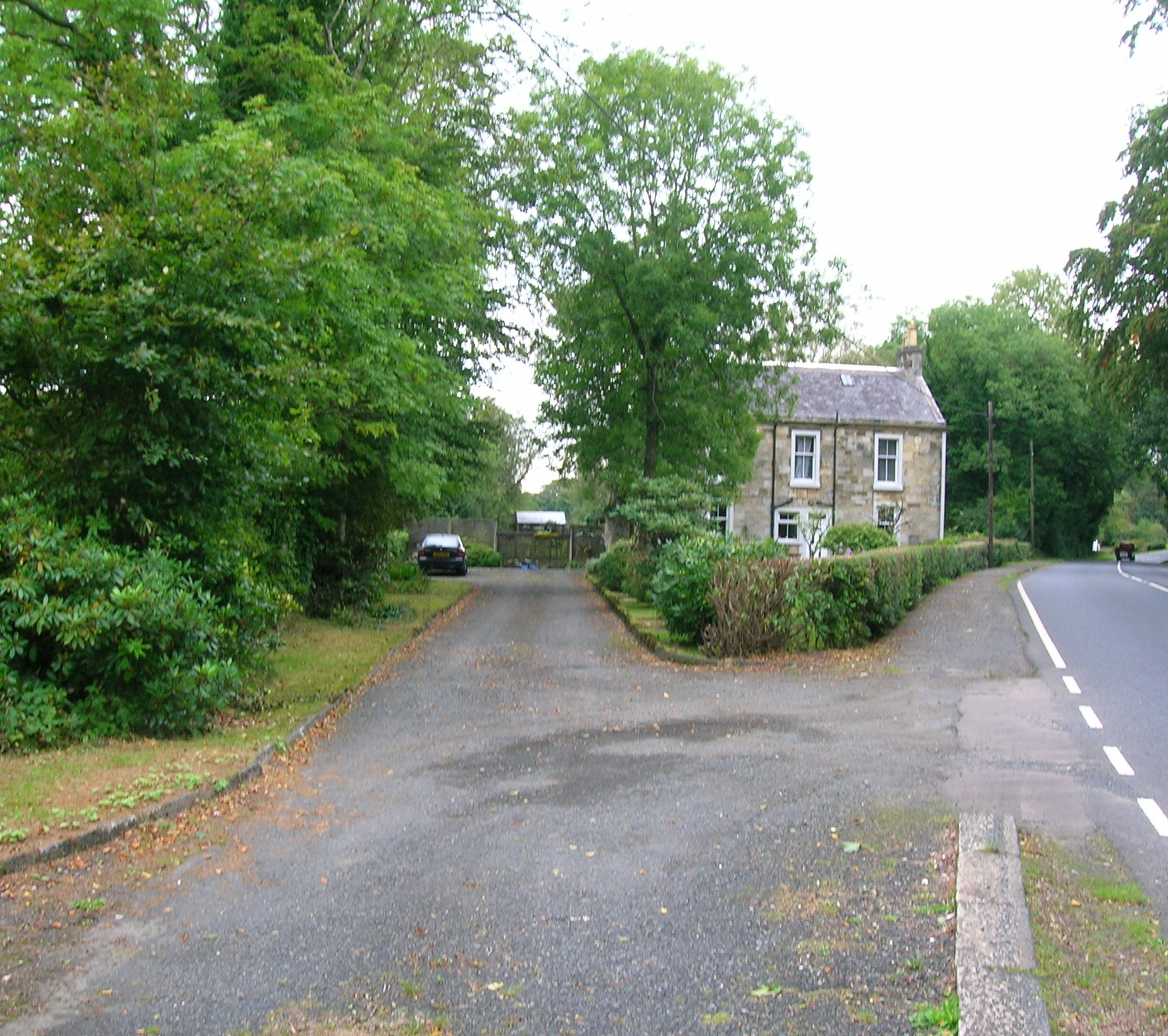 The old entrance to Monkredding with a lodge house, Kilwinning, North Ayrshire, Scotland.